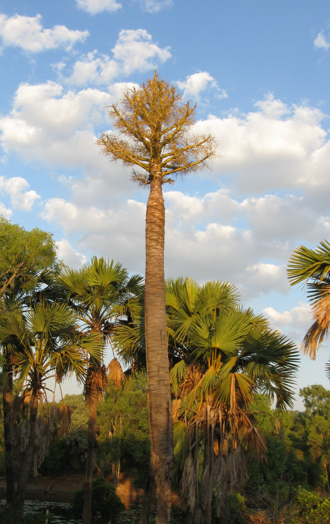 Palm after it's flowered and fruited, at the end of it;s life .. yet still standing, Kowanyama, Queensland